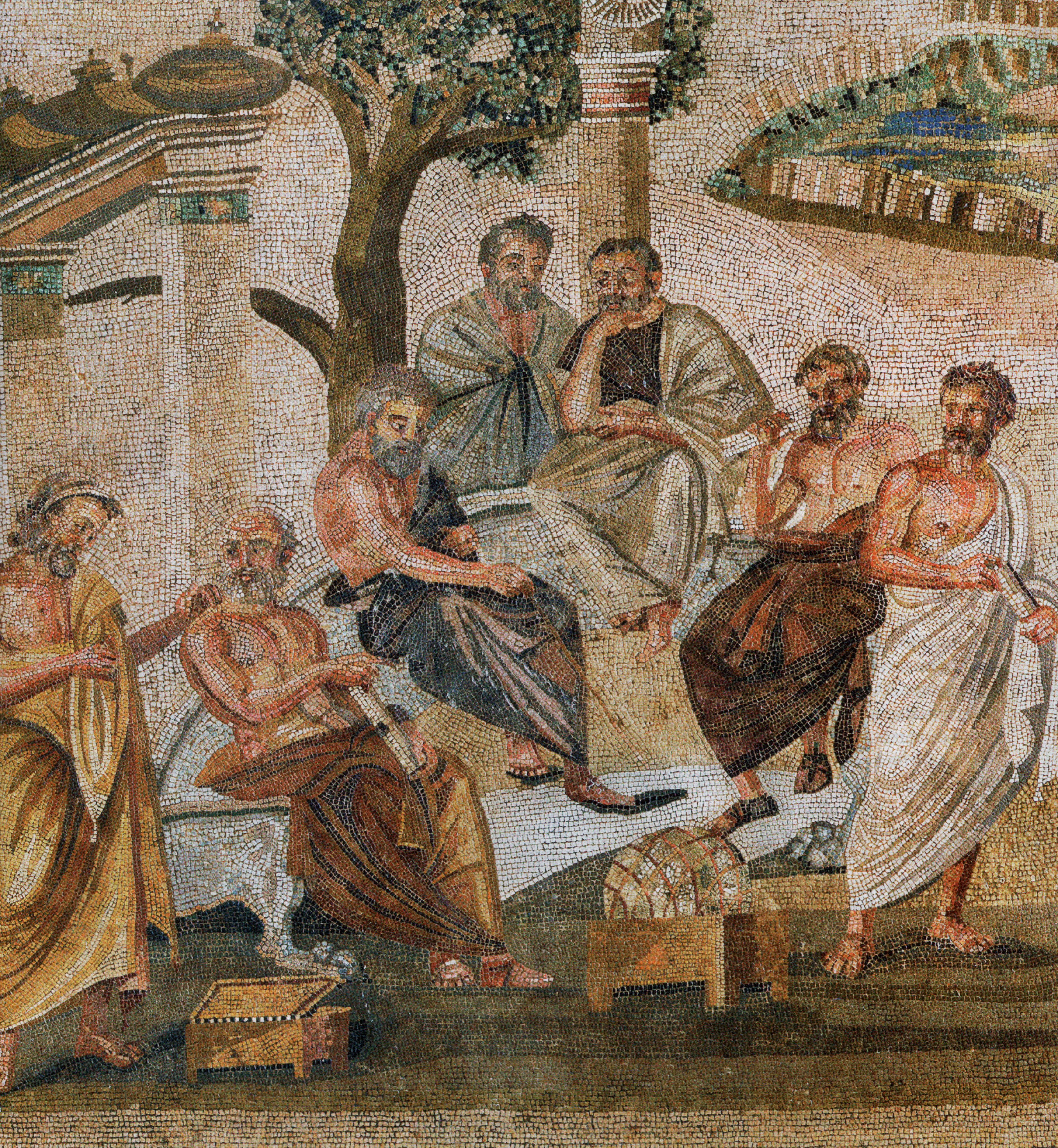 Plato's Academy mosaic. Roman mosaic of the 1st century BCE from Pompeii, now at the Museo Nazionale Archologico, Naples.